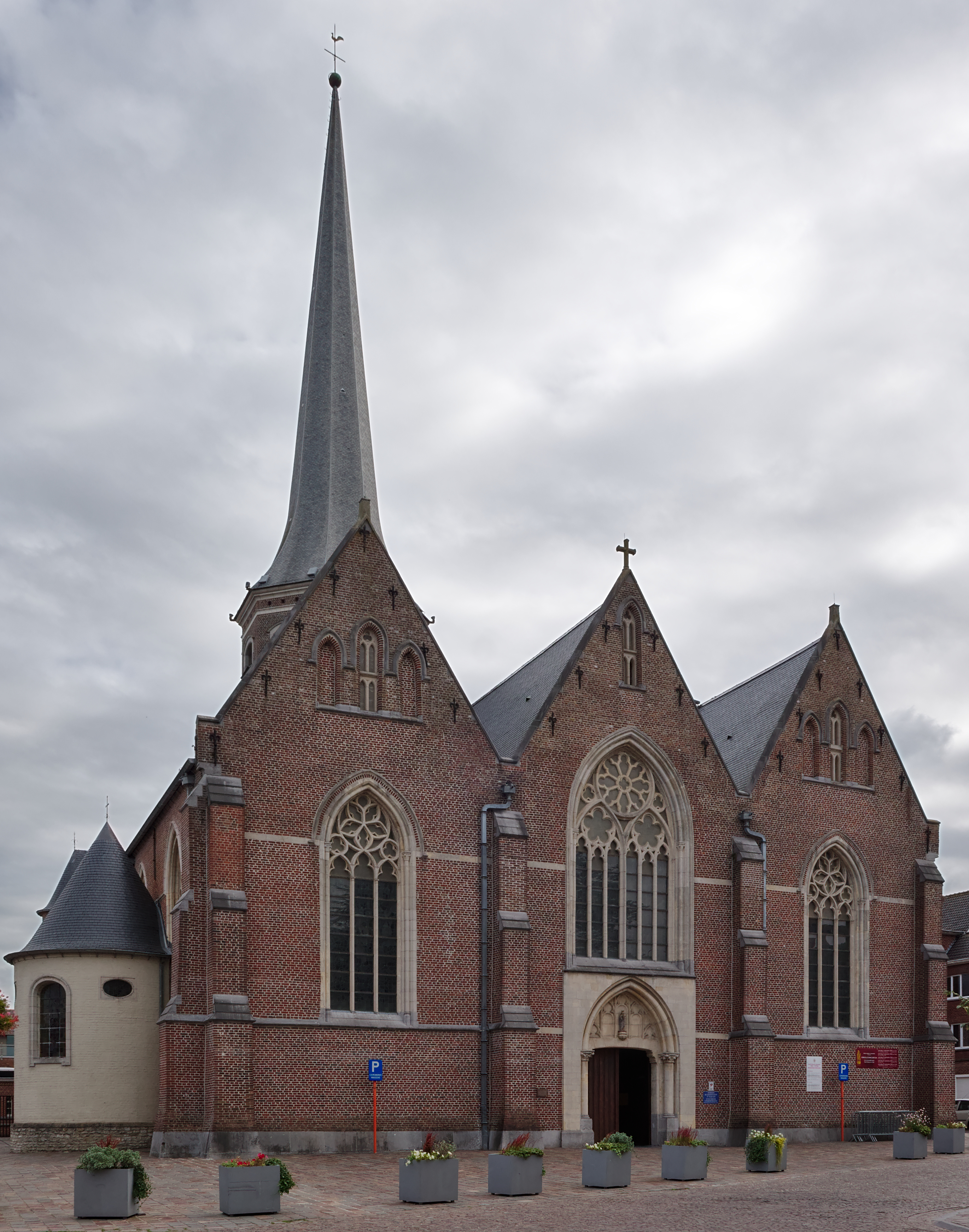 West facade of the Saint-Peter church in Tielt, Belgium This photo of immovable heritage has been taken in the Flemish Region